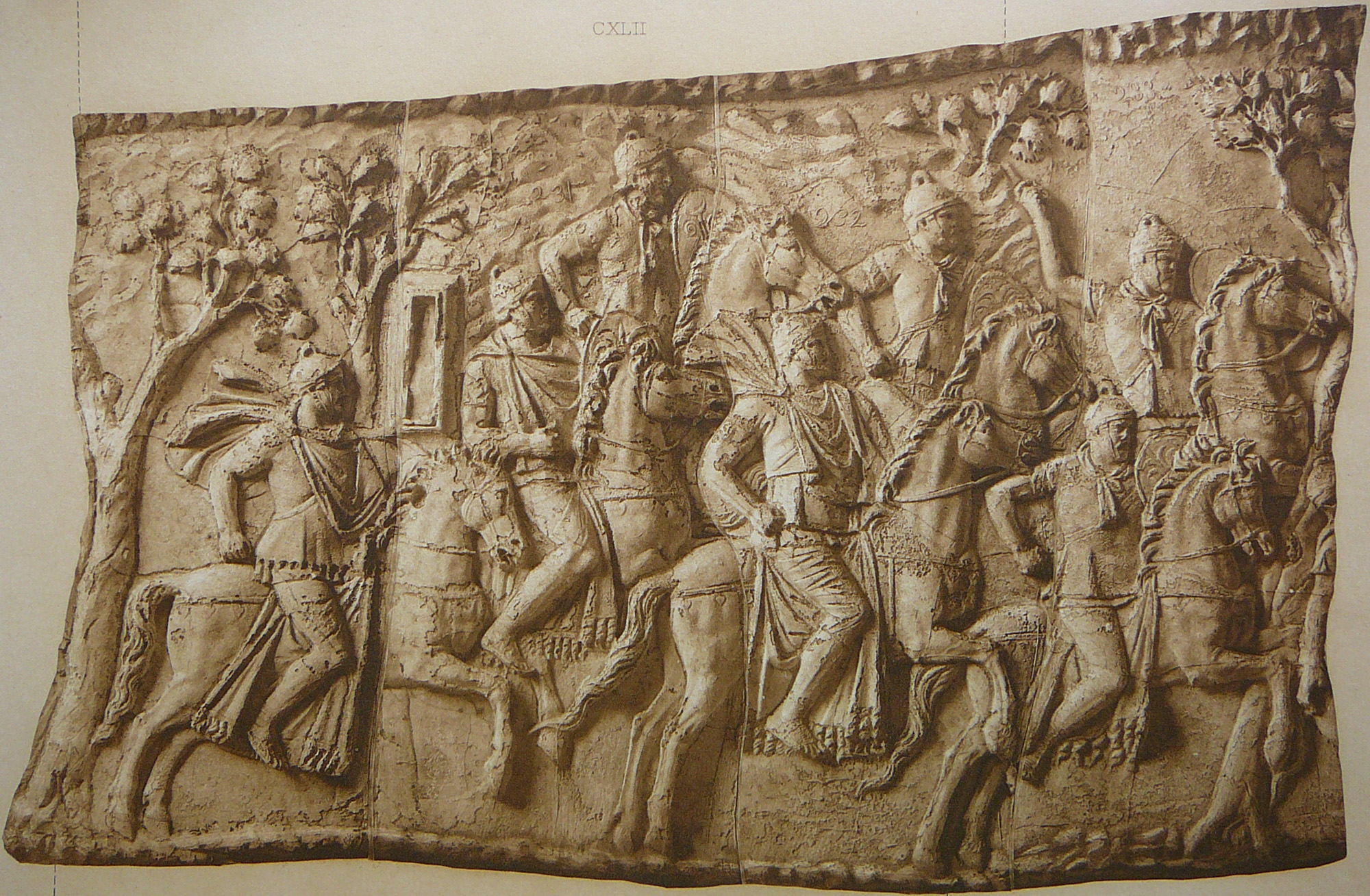 Roman cavalry in the mountains (scene CXLII); fight between pursuers and pursued (scene CXLIII)